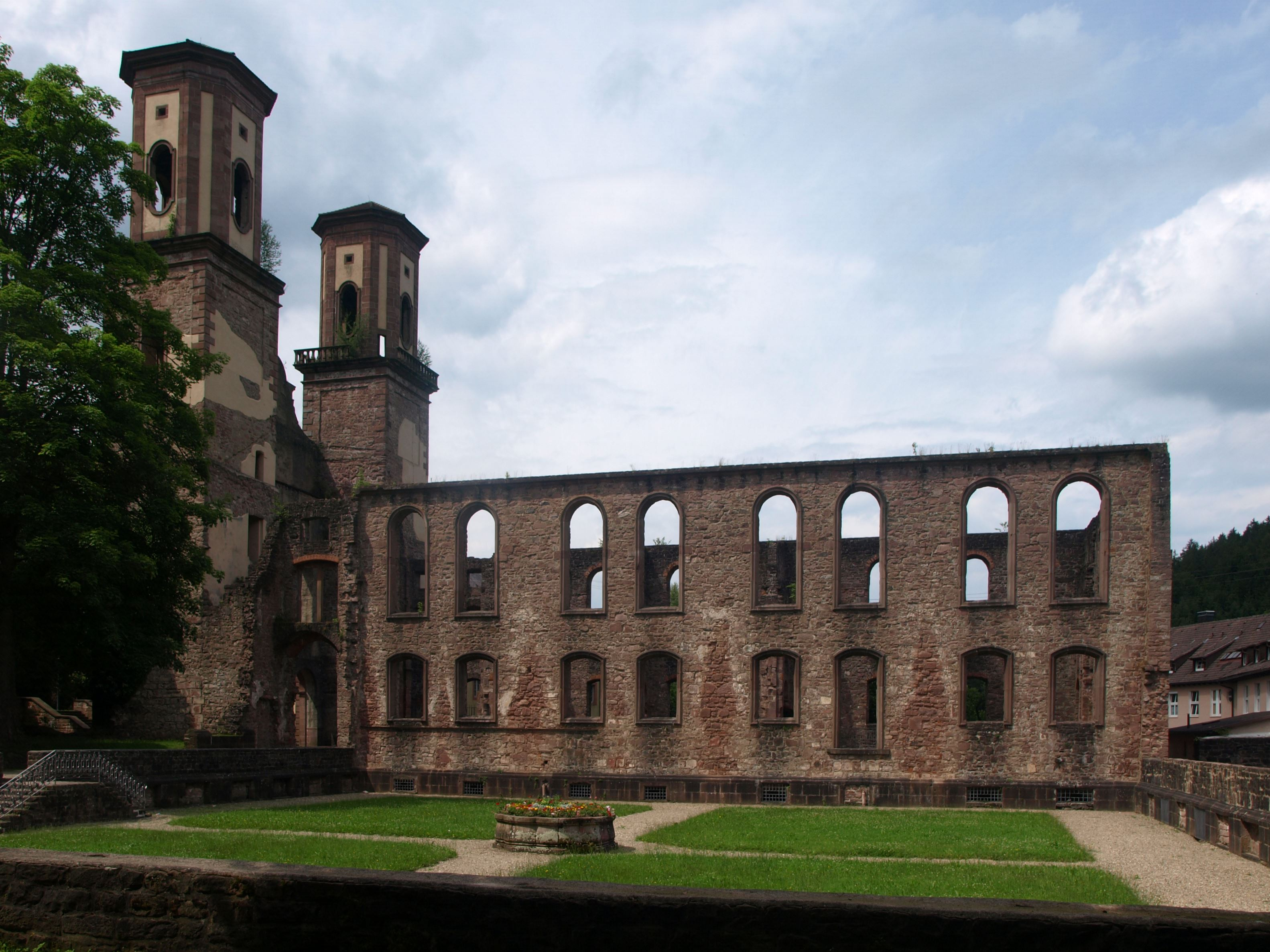 South elevation of the ruins of monastery Frauenalb